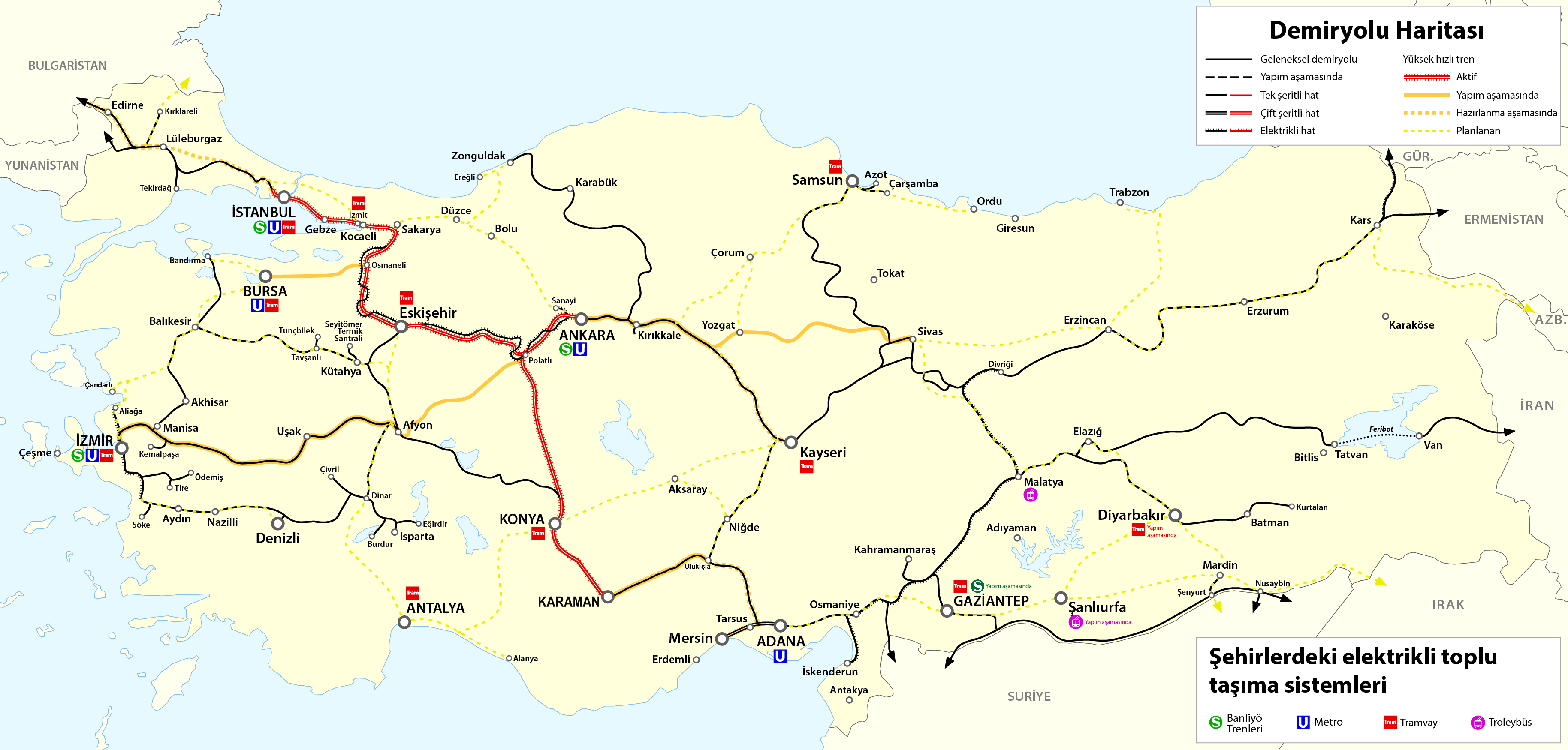 Turkish version of the original work of Maximilian Dörrbecker (Chumwa).